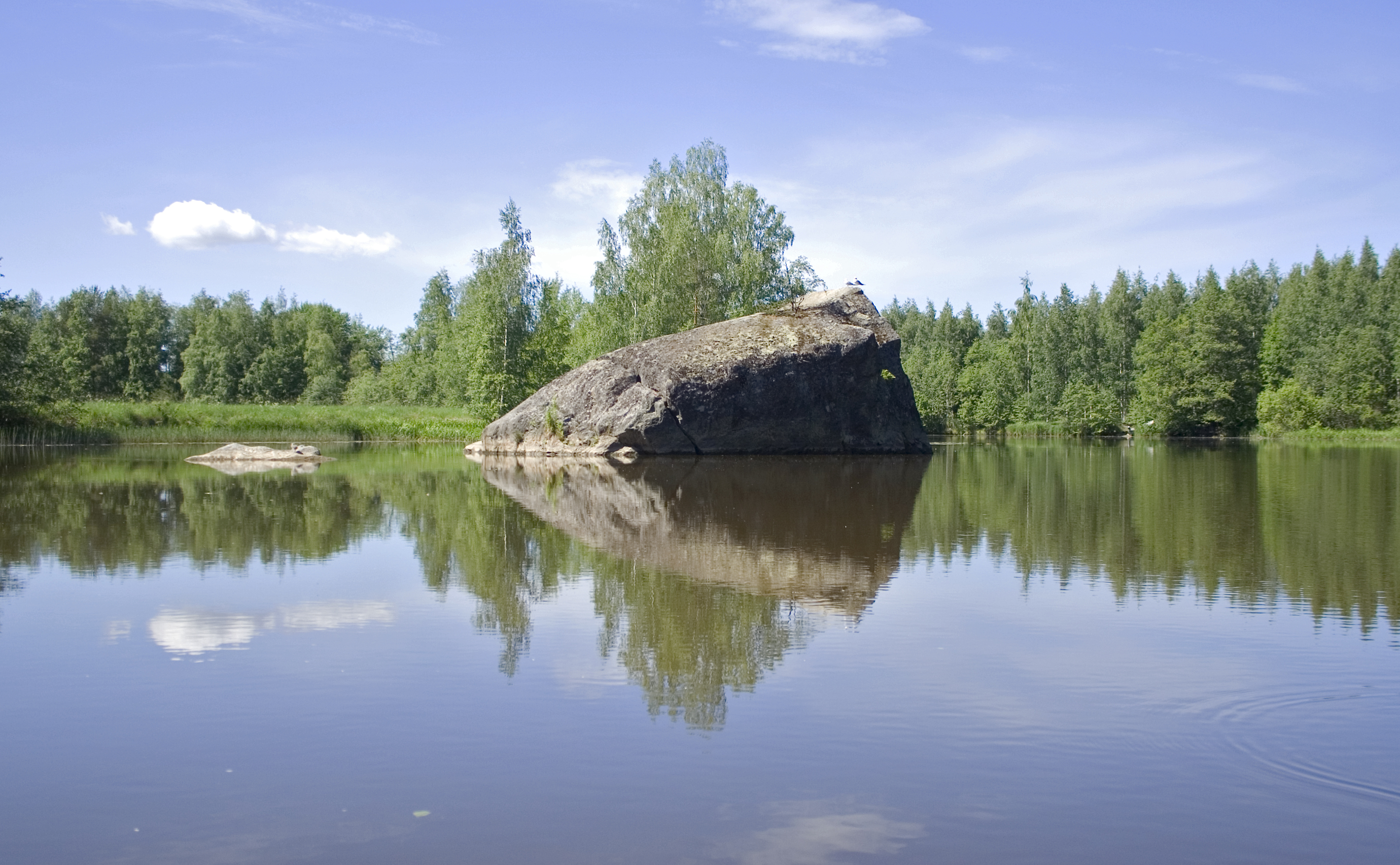 Katinkivi (Cat stone) remaind when removing stones fron the river